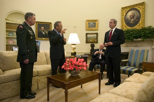 President George W. Bush and Vice President Dick Cheney meet with Secretary of Defense Donald Rumsfeld and General John Abizaid, Combatant Commander of the U.S. Central Command, in the Oval Office Thursday, May 20, 2004. White House photo by Eric Draper